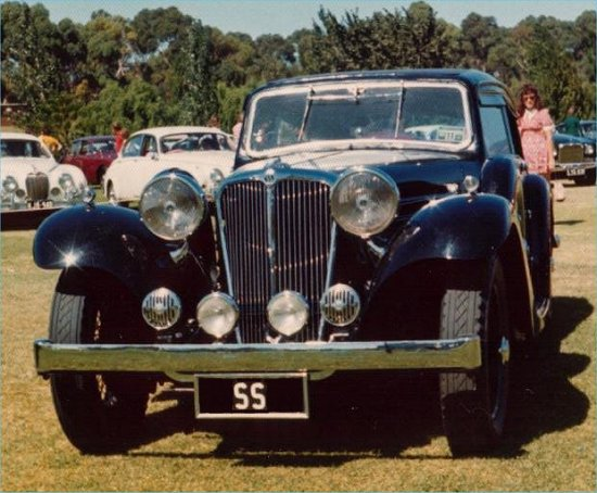 Photo of historic SS 1